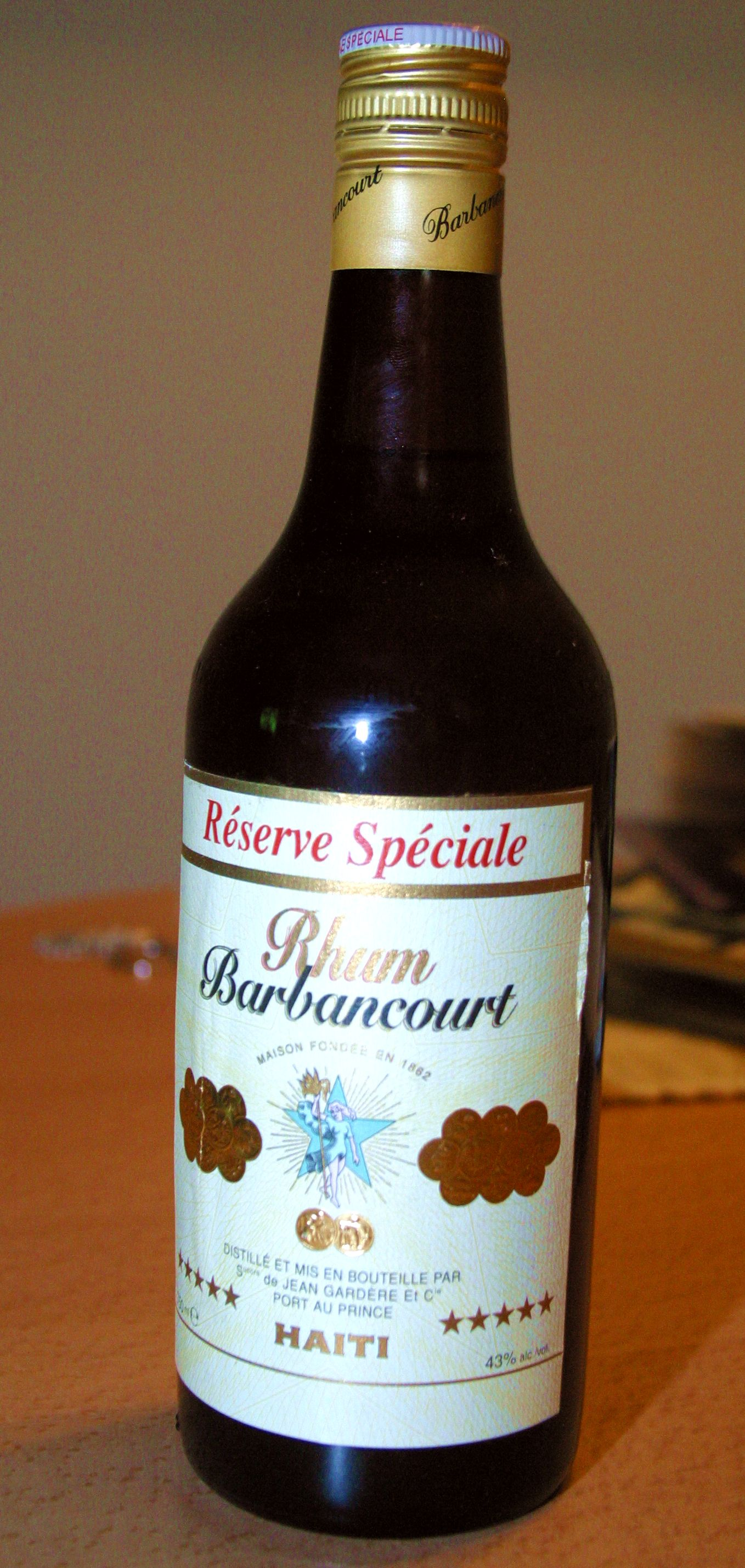 Rhum Barbancourt Bottle